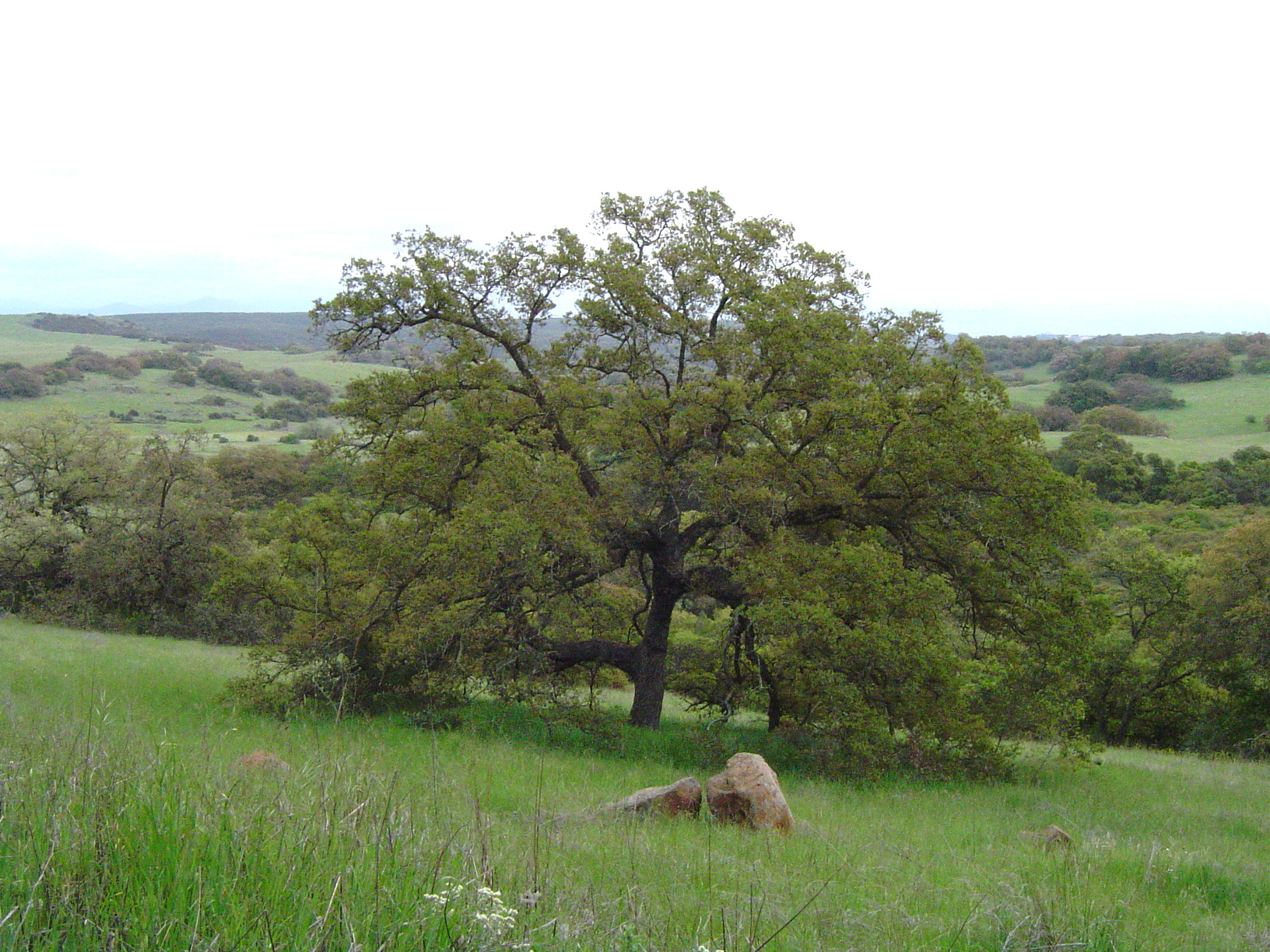 Engelmann Oak (Quercus engelmannii) woodlands on the Santa Rosa Plateau. Within the Santa Rosa Plateau Ecological Reserve, in Riverside County, California.